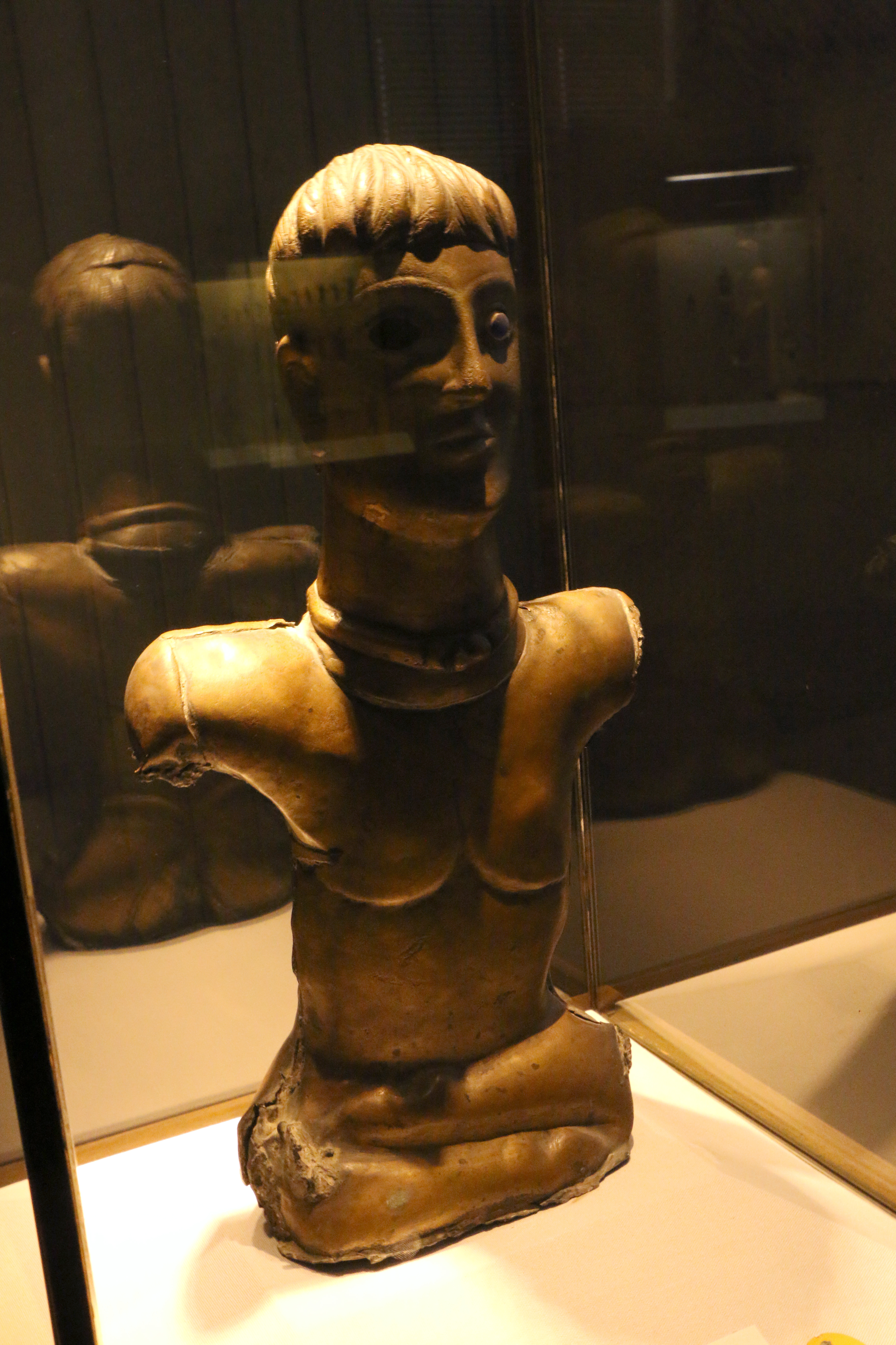 From the National Archaeological Museum of Saint-Germain-en-Laye near Paris France - Celtic god statue from Bouray-sur-Juine in France